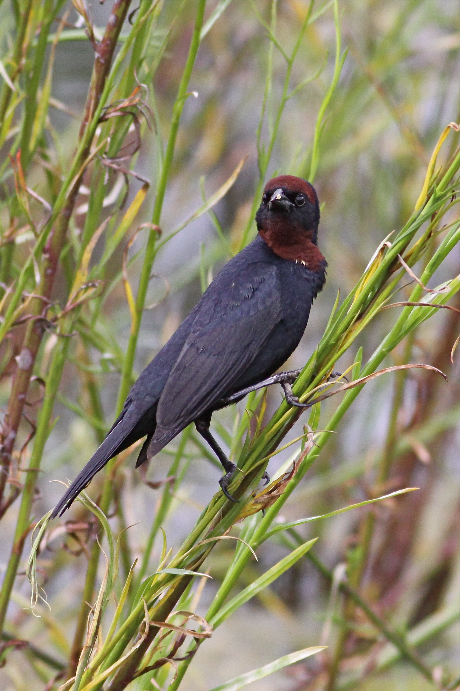 Chestnut-capped Blackbird at Costanera Sur Nature Reserve, Buenos Aires, Argentina.